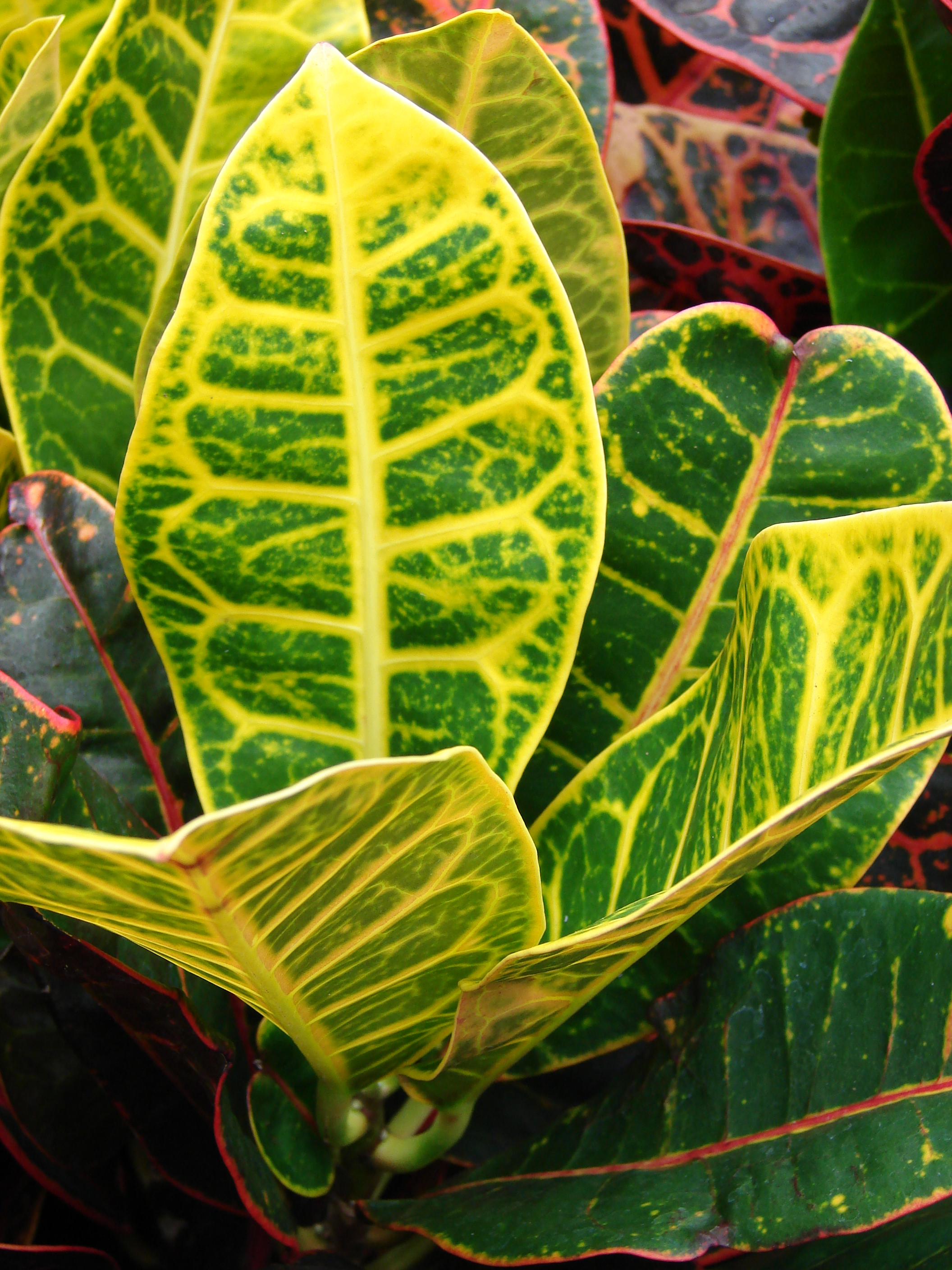 Codiaeum variegatum (leaves). Location: Maui, Kula Ace Hardware and Nursery